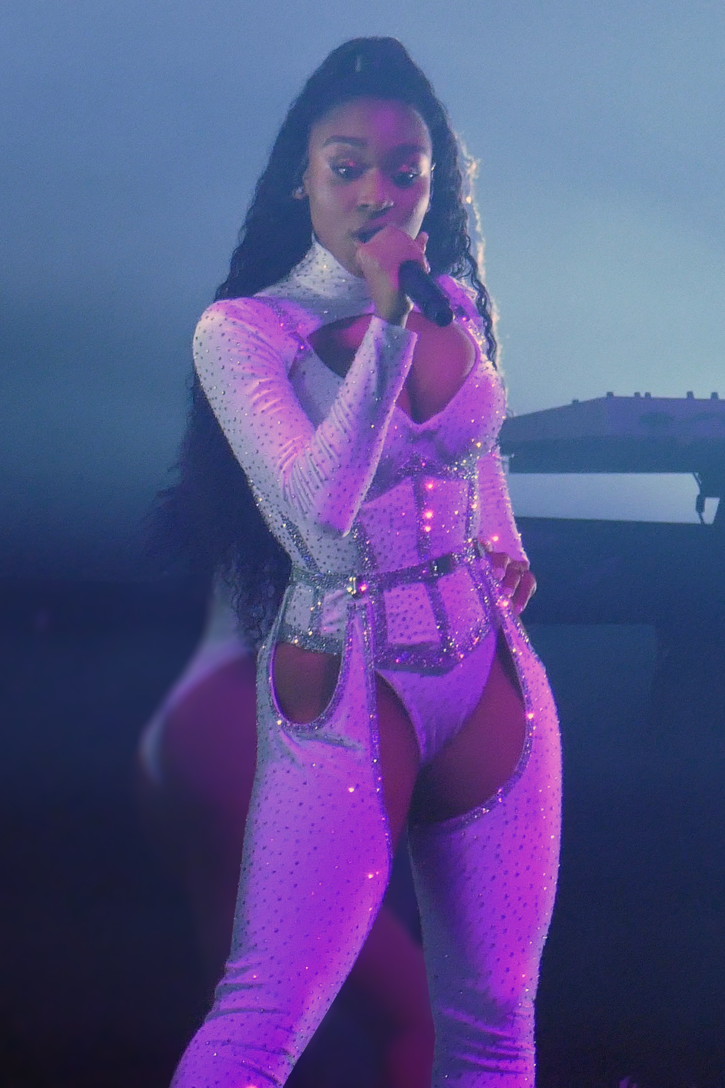 Singer Normani performing at the 2019 93.3 FLZ Jingle Ball on December 1, 2019